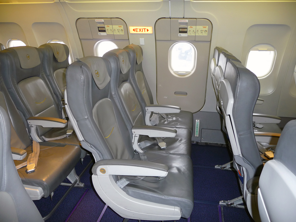 Economy class cabin inside an Airbus A320 of Lufthansa German Airlines